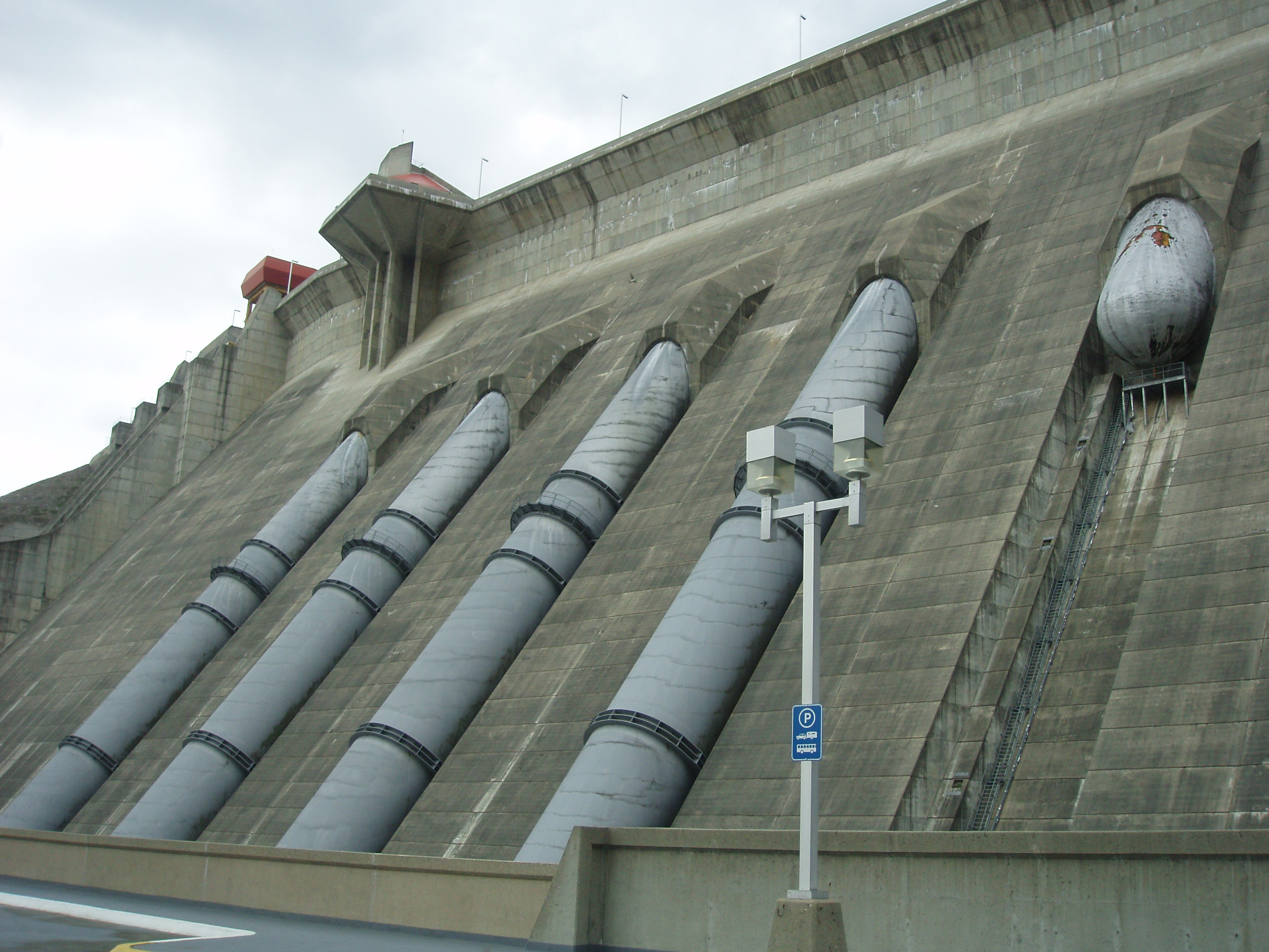 Penstocks at the Revelstoke Dam, British Columbia (Canada). The BC Hydro hydroelectric generating station at this location was commissioned in 1984. Its nameplate capacity of this facility is 1,843 MW.